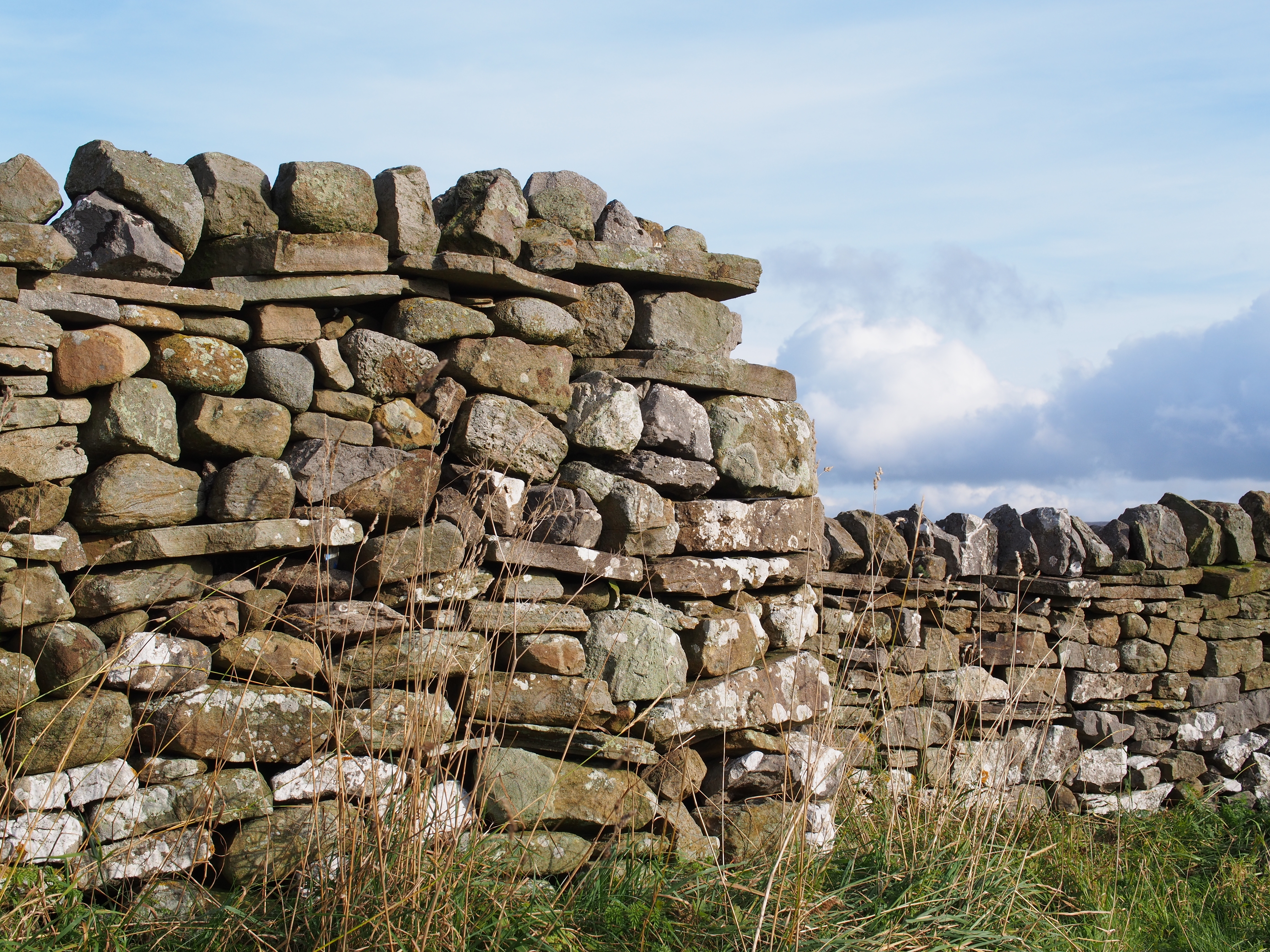 Dry stone walls by Carlton, North Yorkshire